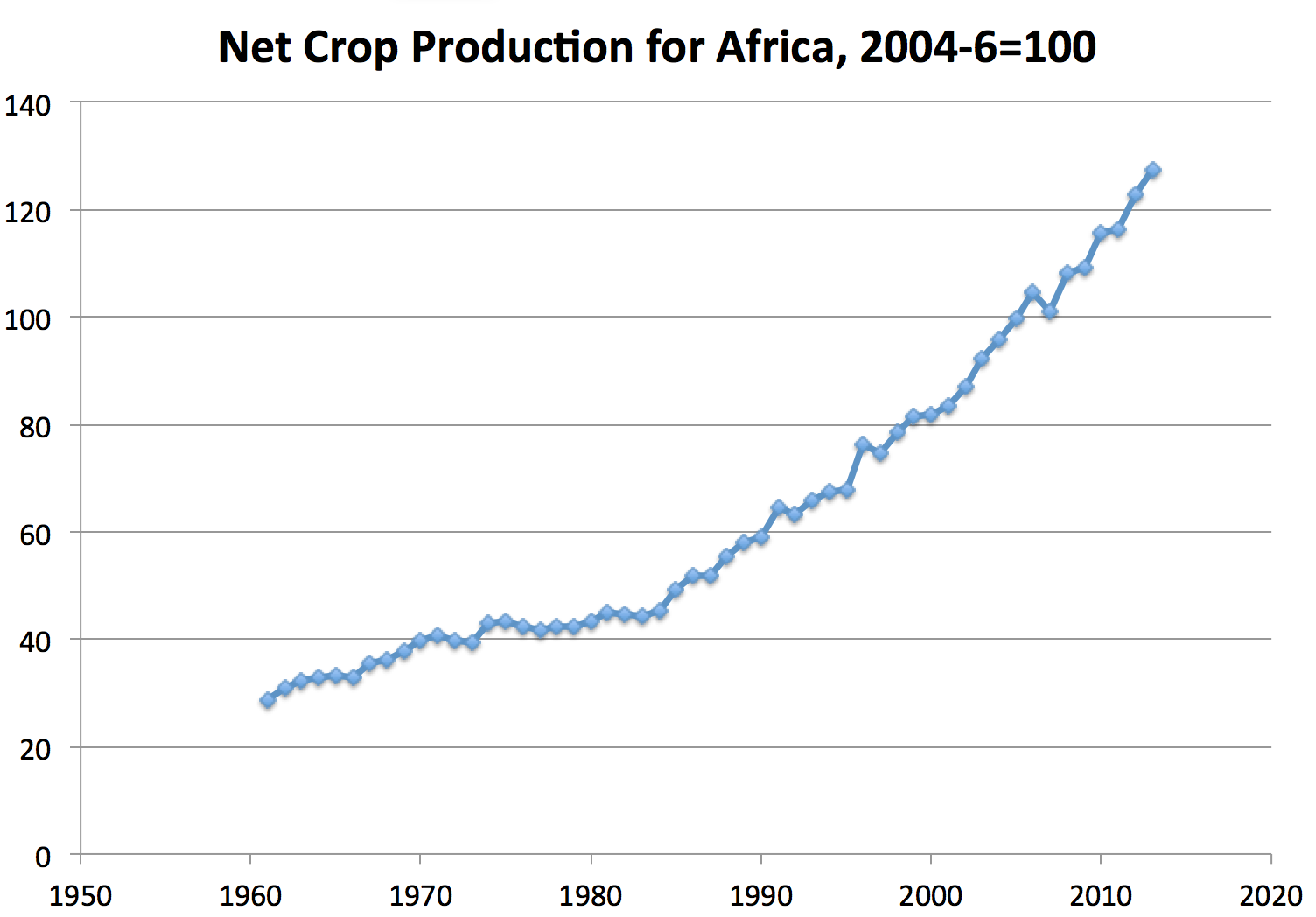 Graph of African crop production since 1960